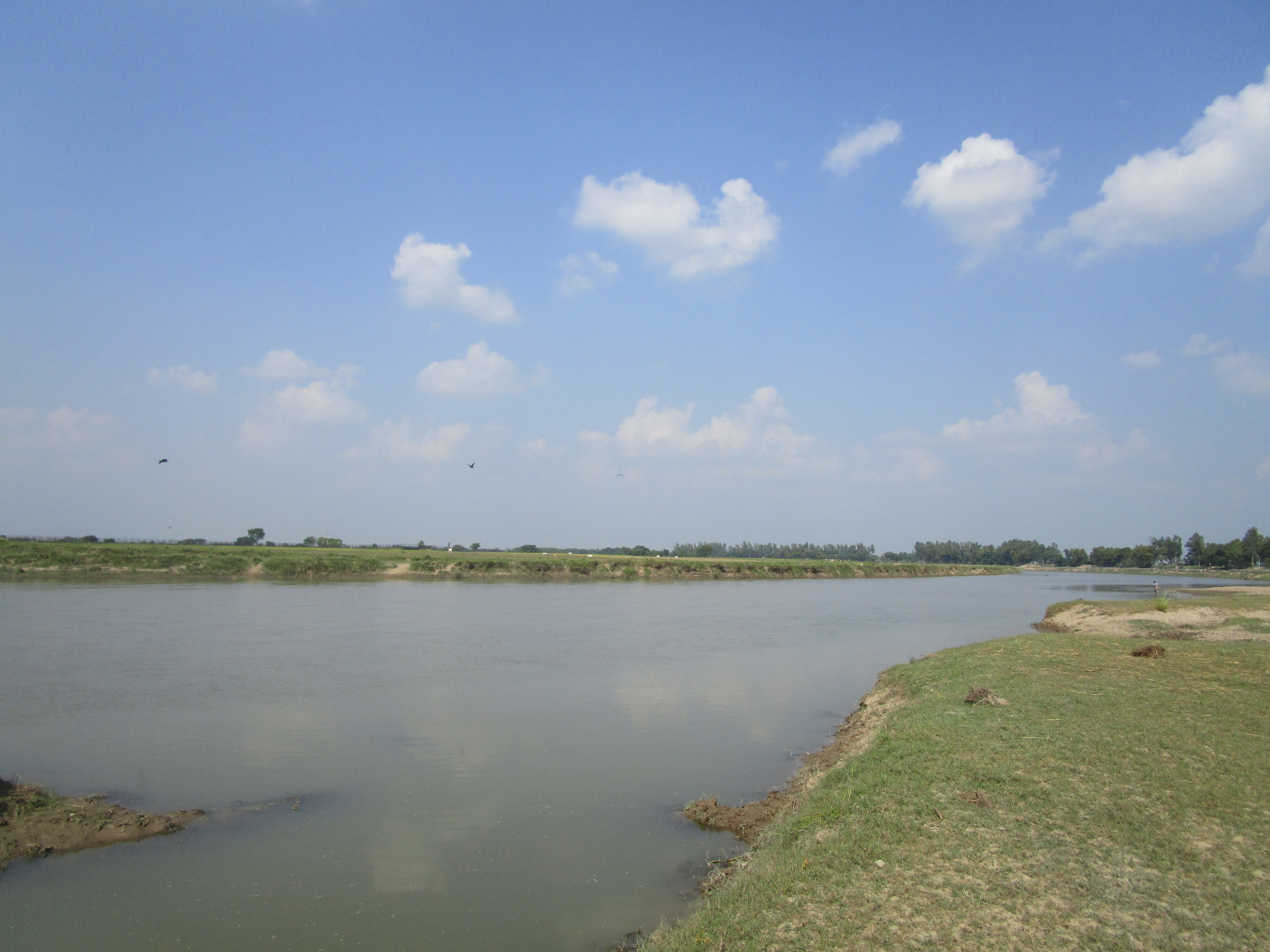 Nagor River at Bangladehsh-India Border, very near from Haripur Upazila.